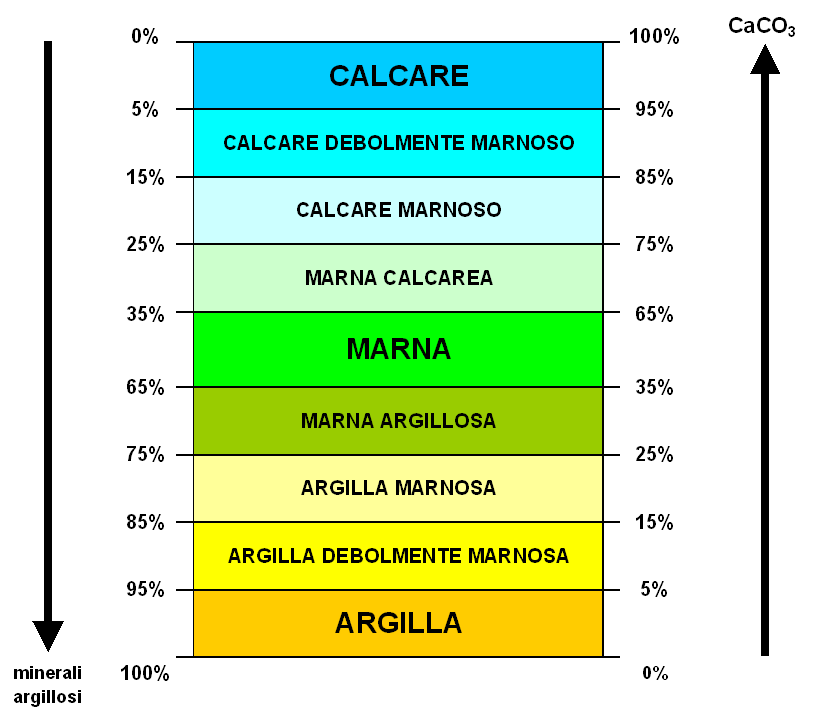 transition from clay to marl to limestone